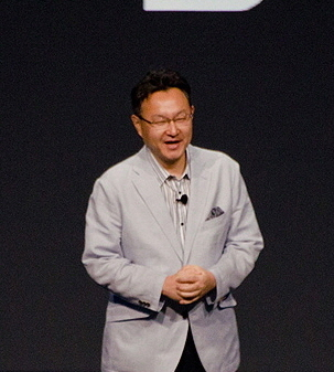 Shuhei Yoshida at E3 2013 press conference, Los Angeles Memorial Sports Arena, in June 2013